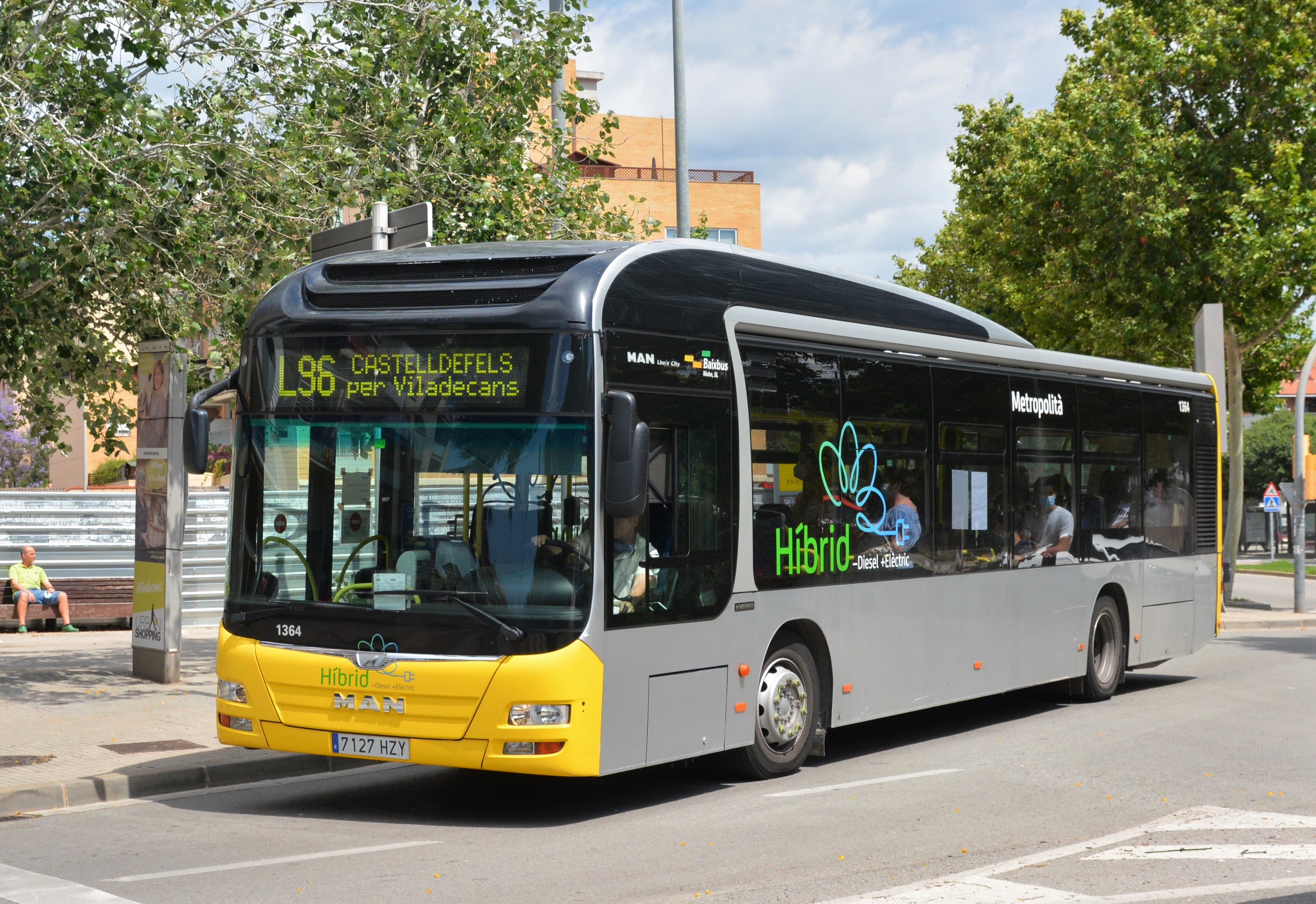 The hybrid bus MAN Lion's City number 1364 of Mohn S.L. in Viladecans.